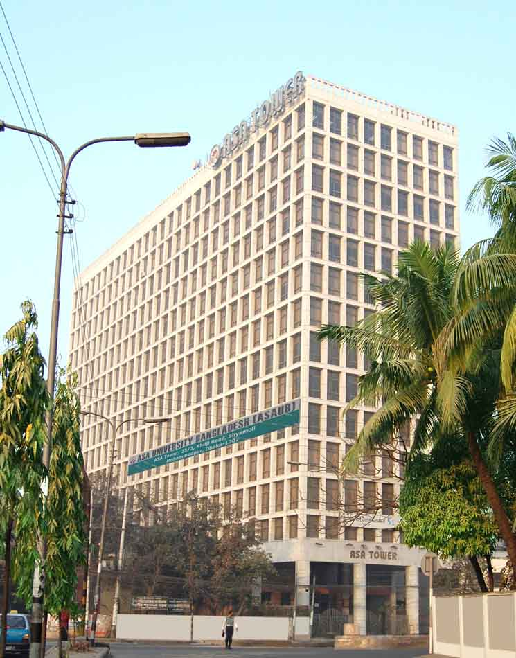 Main campus of ASA University Bangladesh